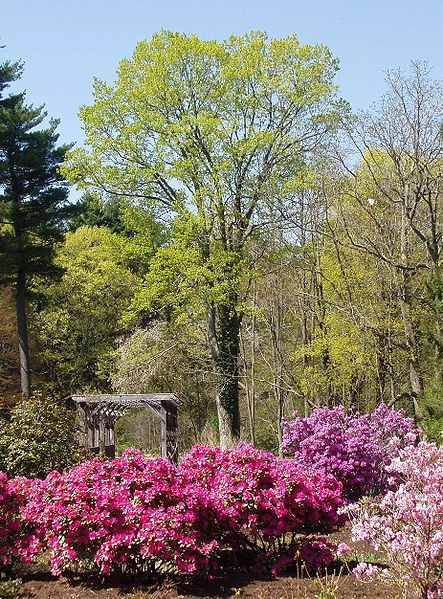 The Alan Payton rhododendron garden at Elm Bank Horticultural Center, Wellesley, Massachusetts.